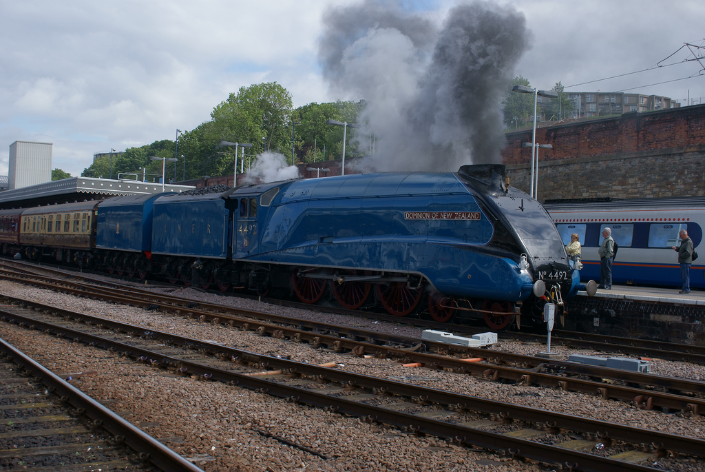 A4 '4492 - Dominion of New Zealand' with a railtour at Sheffield on 12th May 2011.